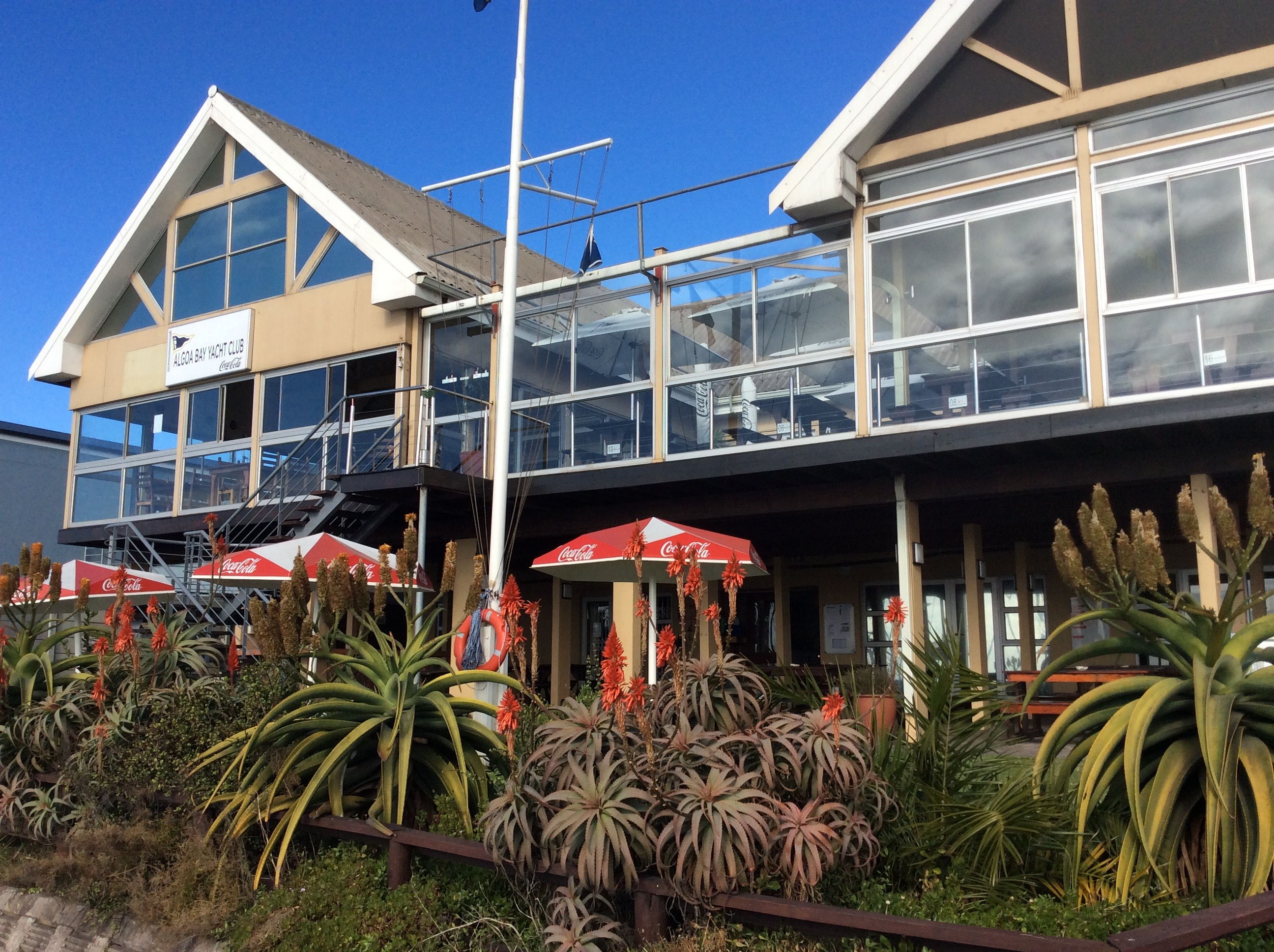 Algoa Bay Yacht Club clubhouse